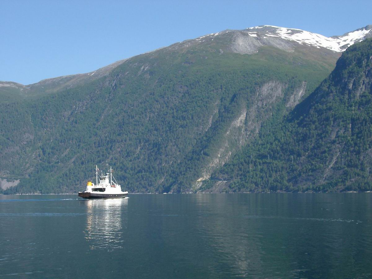 Ferry from Linge to Eidsdal in Norddal, Norway